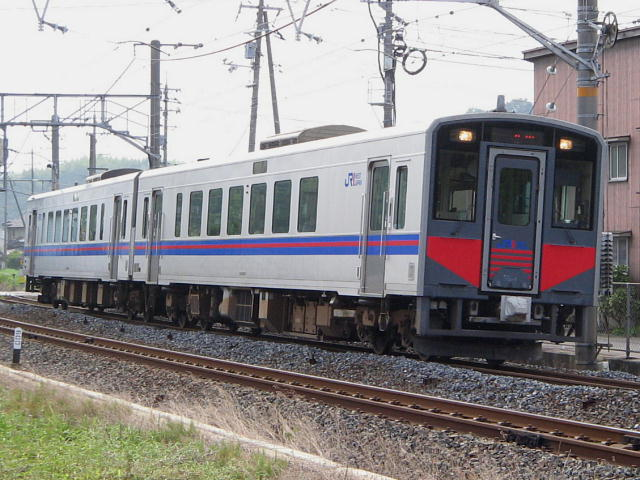 JR West Series 126 Diesel Multiple Unit. In Sanin Main Line. During Yonago Station and Yasugi Station.